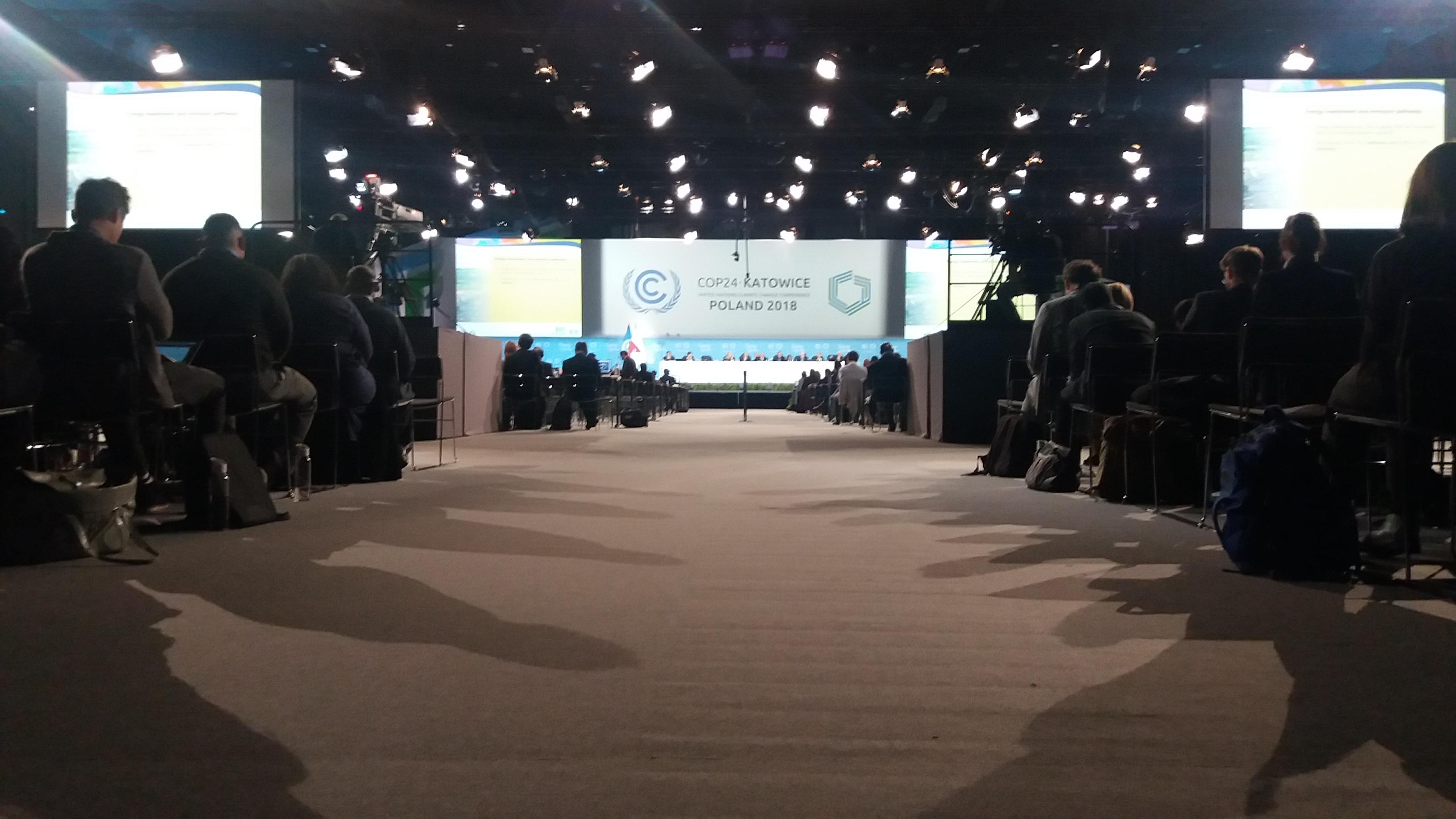 COP24 Katowice plenary session.